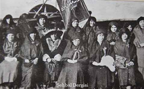 Picture from 1913, at the "Şehbal" magazine, showing the Ottoman women from the Müdafaa-i Hukuk-u Nisvan Cemiyeti (Society for the Protection of Women's Rights) who came to "Ayastefanos" (Yeşilköy) to watch Belkıs Şevket Hanım fly.